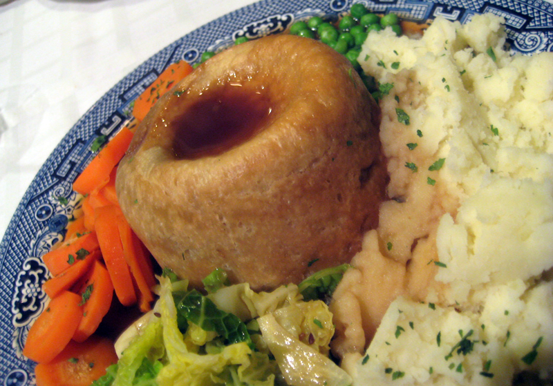 From the Pie Room in the Newman Arms